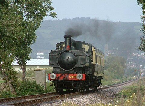 Railway across Dunster Marsh. The West Somerset Railway crosses Dunster Marsh on a mainly level but dead straight course.